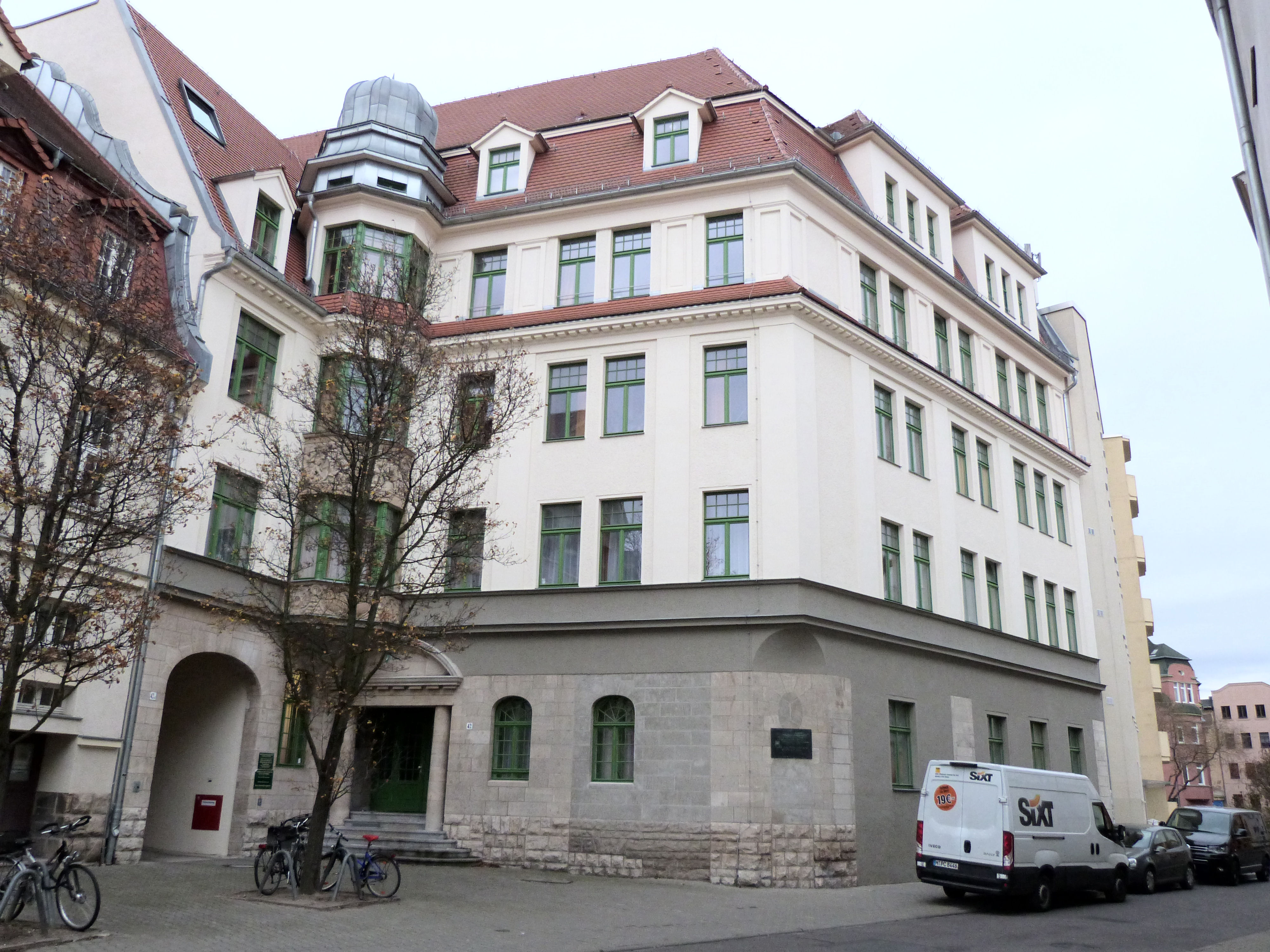 House No. 42 Harz, student hostel, Halle (Saale), former labour union house from 1914